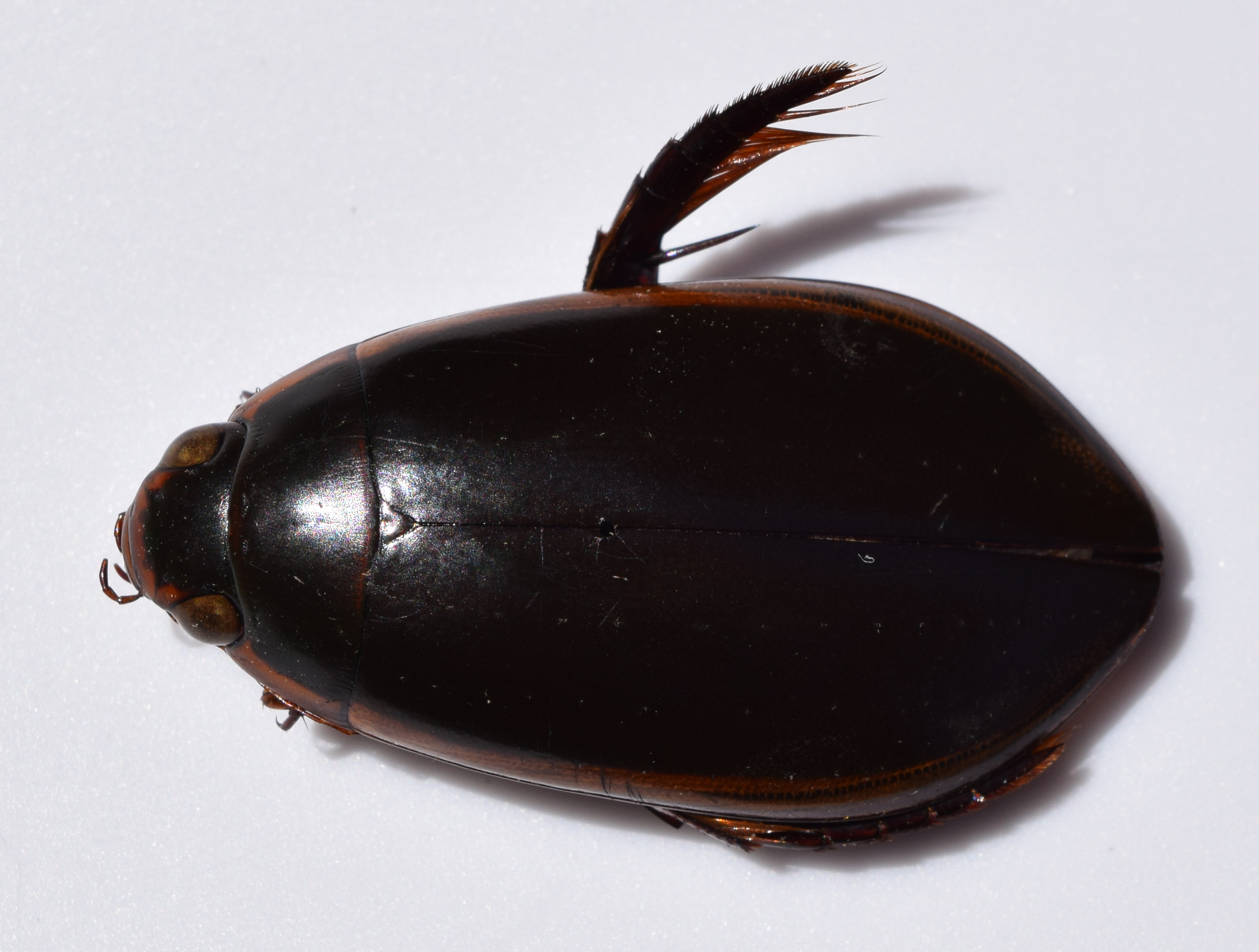 A dead adult male Cybister fimbriolatus at the University of Mississippi Field Station.